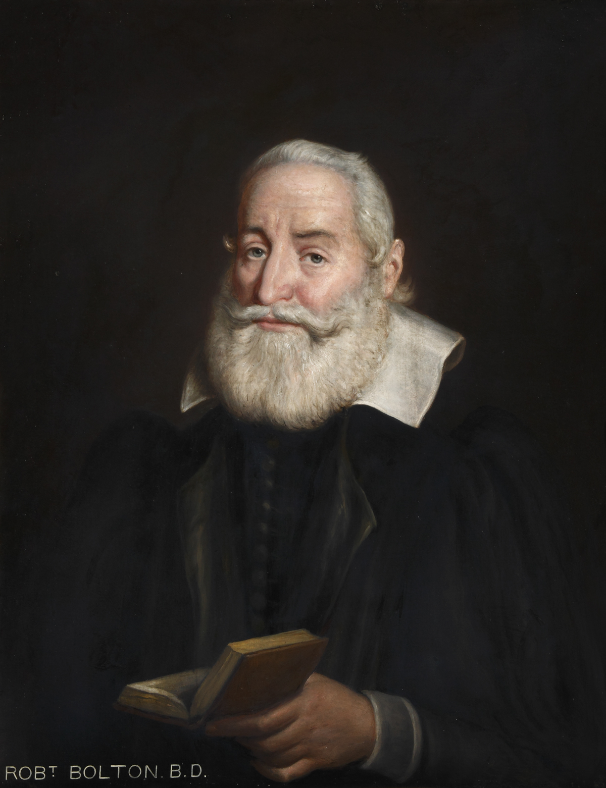 Depicted person: Robert Bolton